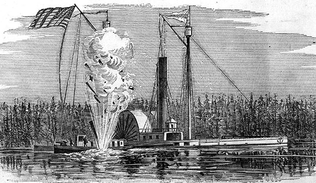 Photo #: NH 1334 "Wreck of the 'Otsego,' and the Explosion of the Tug 'Bazely' in the Roanoke River" Line engraving, published in "Harper's Weekly", 21 January 1865, depicting USS Bazely striking a mine during operations in the Roanoke River, North Carolina, on 9 December 1864 (not 10 December as stated on the original print). The sunken USS Otsego, which had hit another mine shortly before, is in the background. U.S. Naval Historical Center Photograph.